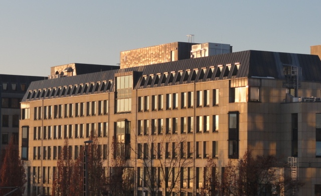 Yorckstraße 21-23, HSBC Transaction Services Head Office